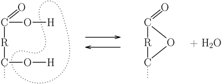 Synthesis of lactone from hydroxy-carboxylic acid